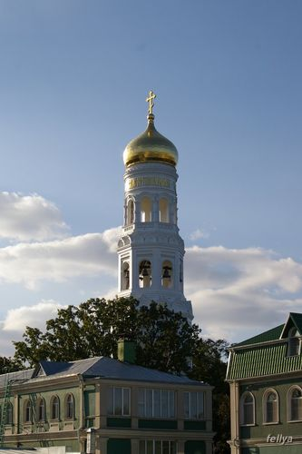 Ukraine. Odessa. Svyato-Uspensky Monastery